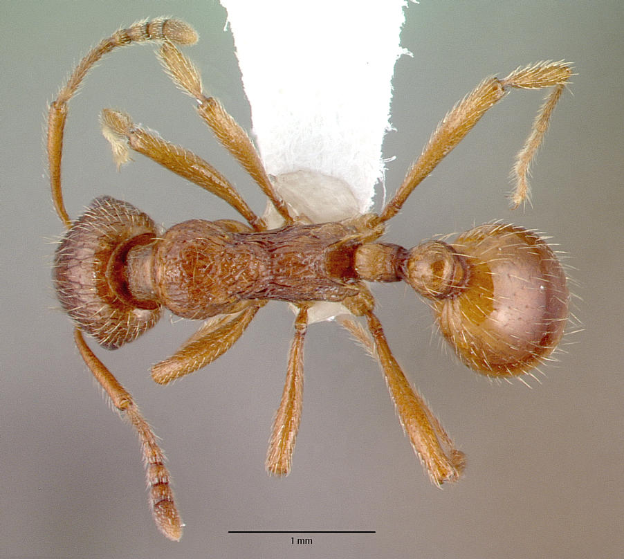 Dorsal view of ant Myrmica rubra specimen casent0010684.